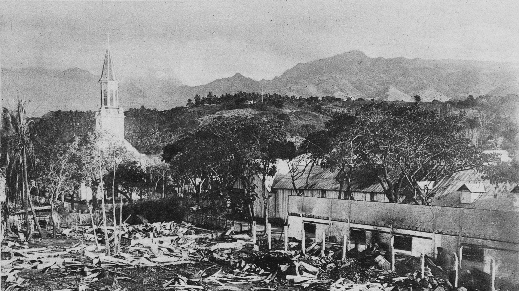 The results of the bombing of Papeete on 22 September 1914 by the German cruisers. Photographs published by the weekly Le Miroir of December 6, 1914.